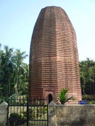 It is a picture of mothurapur deul.